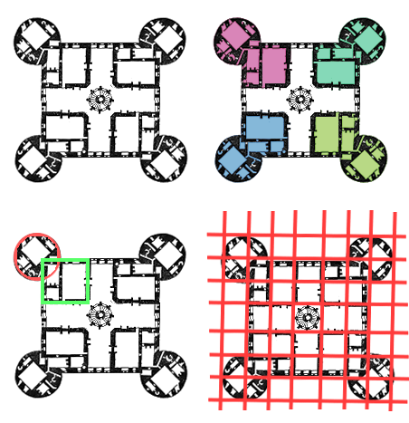 Original plan of Château de Chambord, Loir-et-Cher, Val de Loire (Loire Valley), France. Based on a current floor plan of Château de Chambord from Eugène Viollet-le-Duc's Dictionary of French Architecture from 11th to 16th Century (1856).